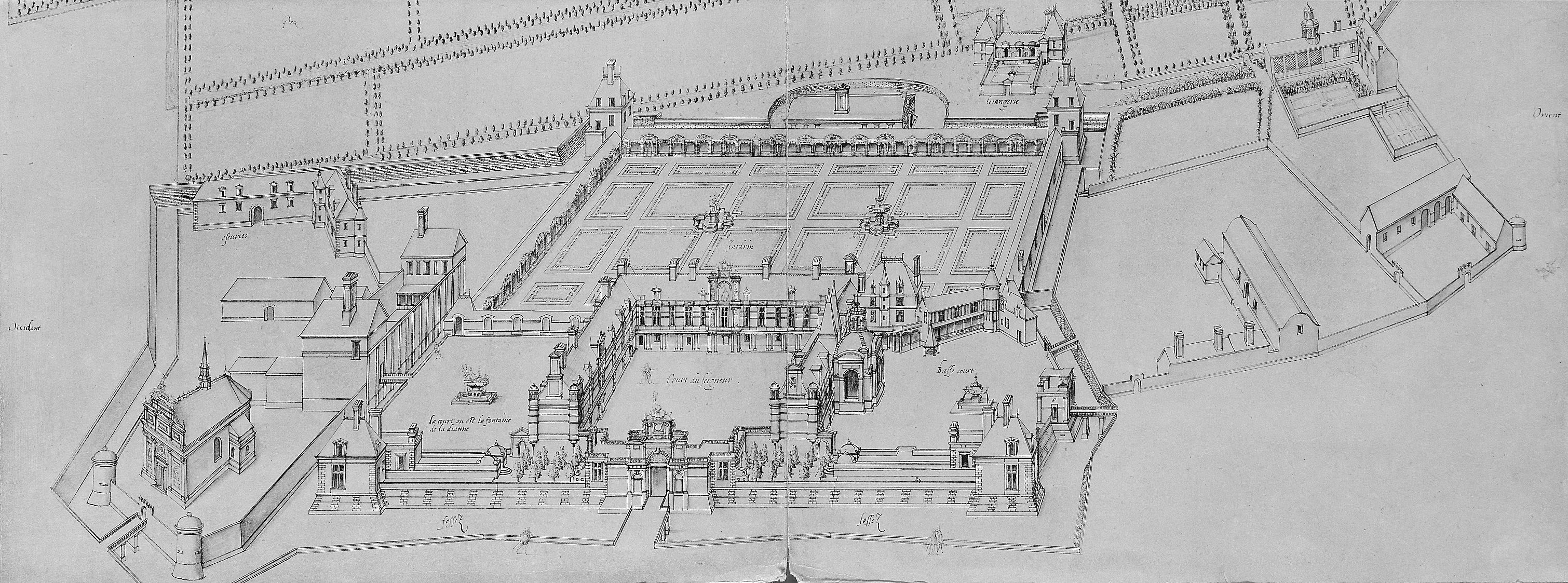 Drawing of the Château d'Anet